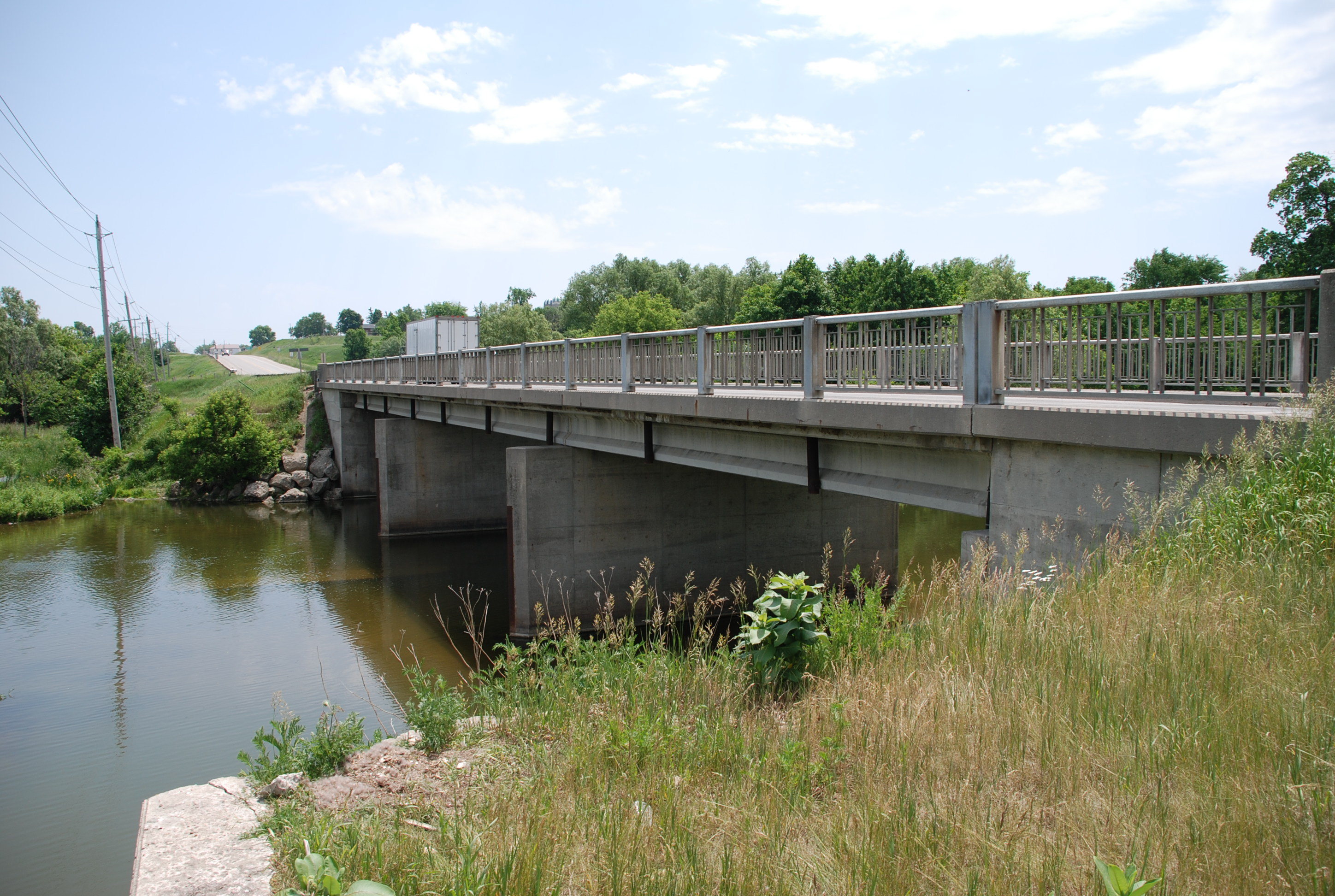 Photo of a bridge on Road86 in Wellesley, ON during bridge inspections.